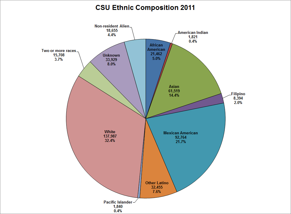 Ethnic composition for the California State University.